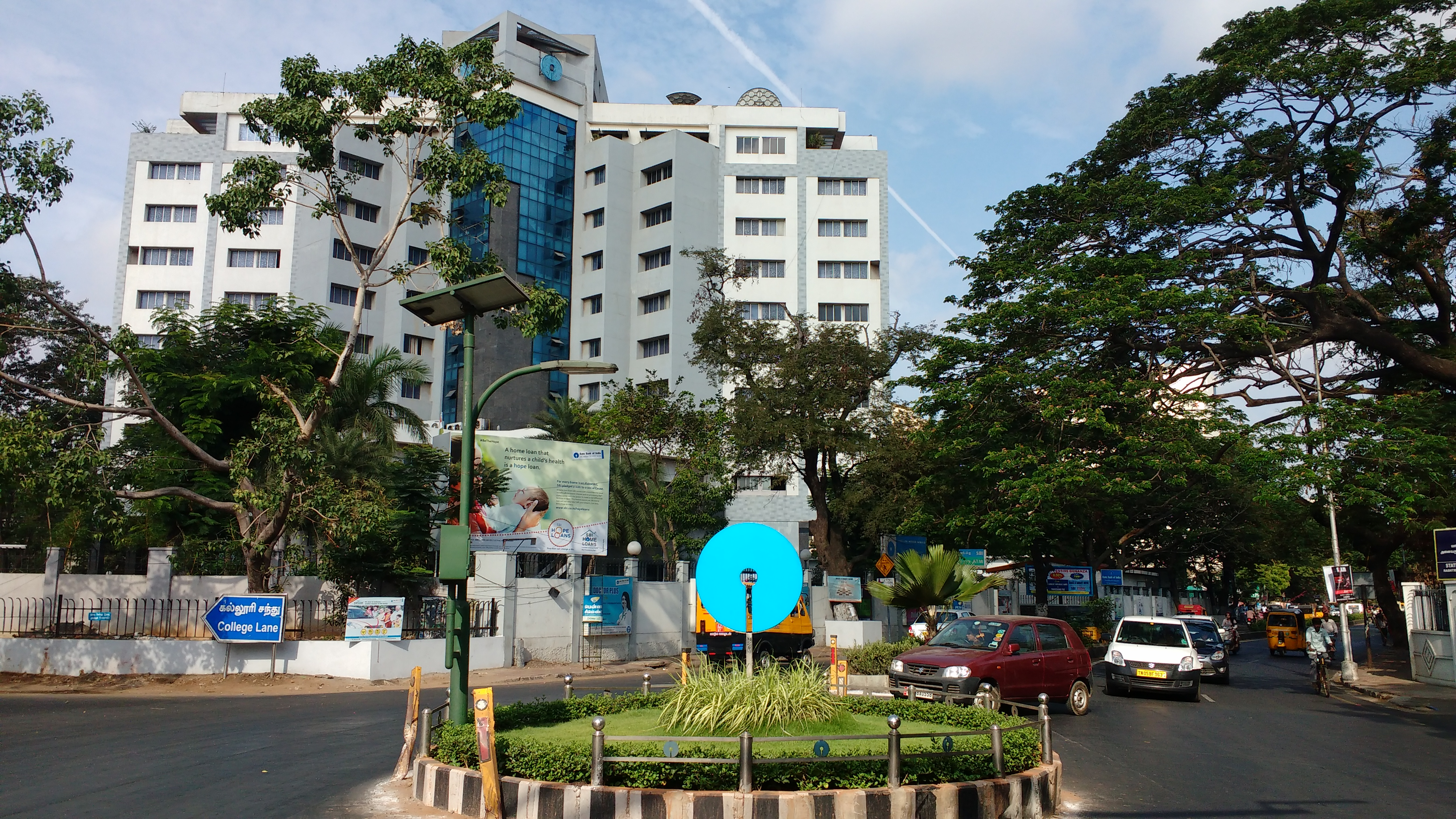 SBI CHENNAI REGIONAL OFFICE